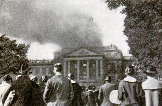 Photograph of the Bascom Hall Fire at the University of Wisconsin in 1916